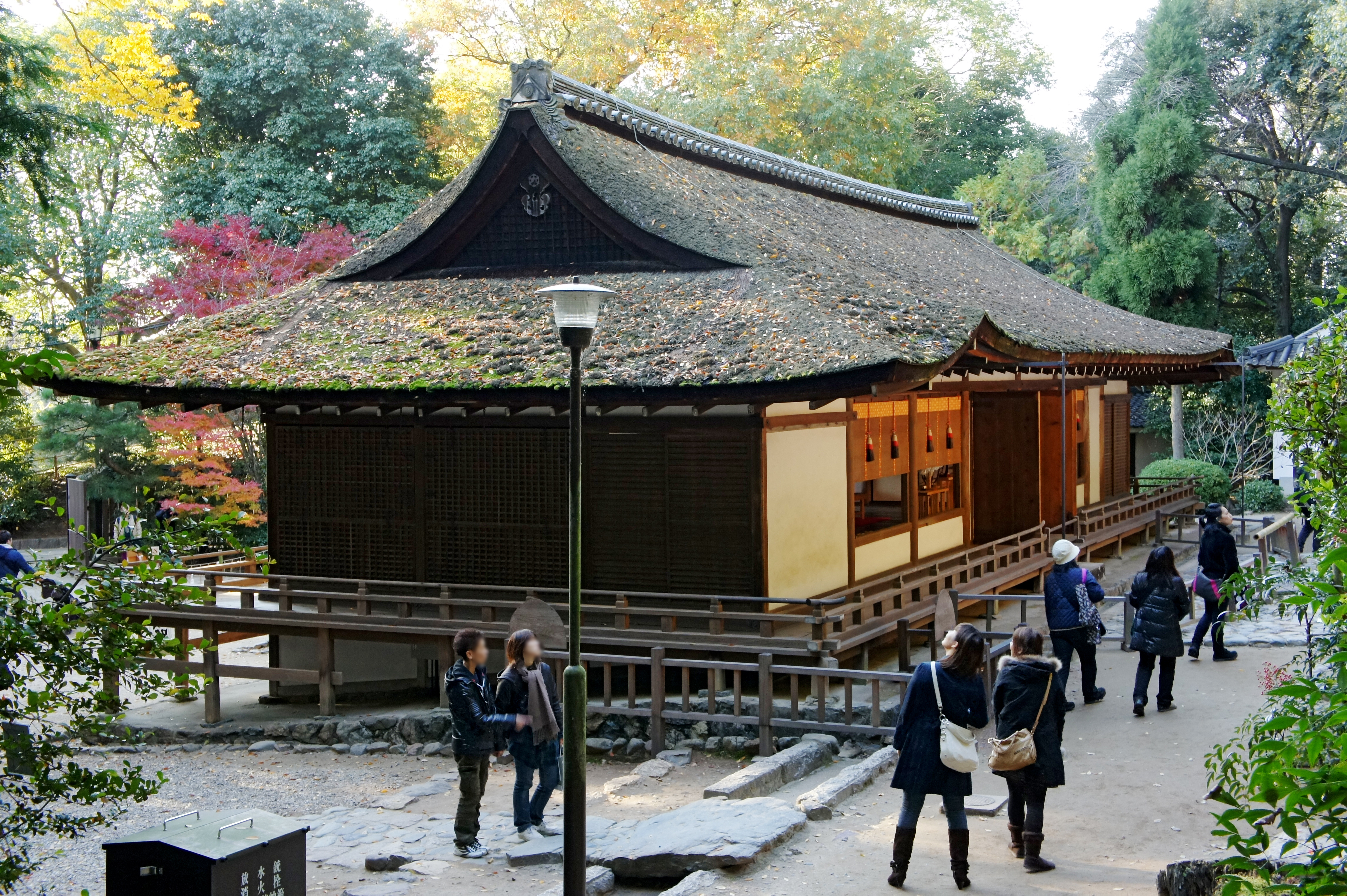 Ujigami-jinja's Haiden (Japan's National Treasure) in Uji, Kyoto prefecture, Japan